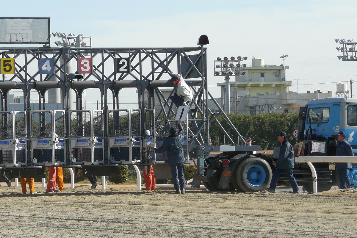 Kawasaki_Racecourse_003